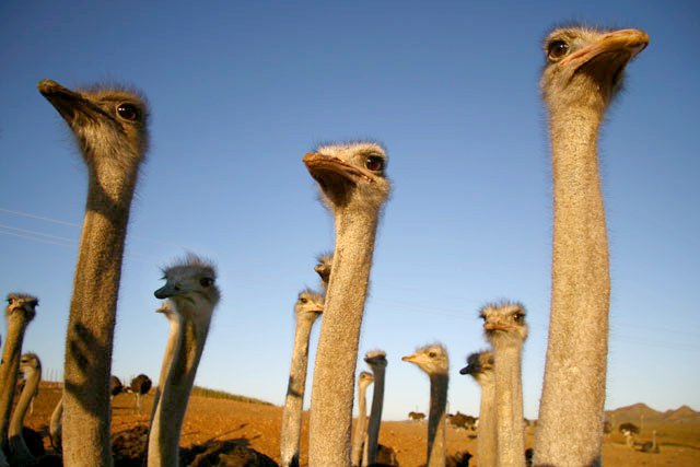 Ostriches near Swartberg Pass, Oudtshoorn, Western Cape